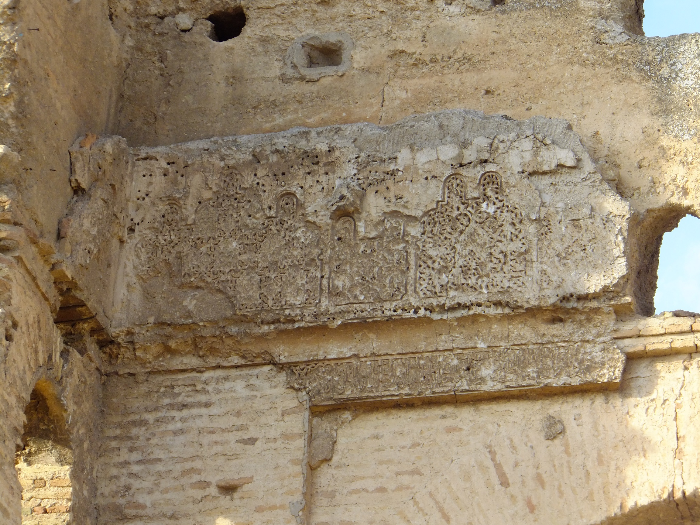 Some fragments of stucco decoration and of an inscription in one of the Merenid Tombs overlooking of Fez, Morocco.